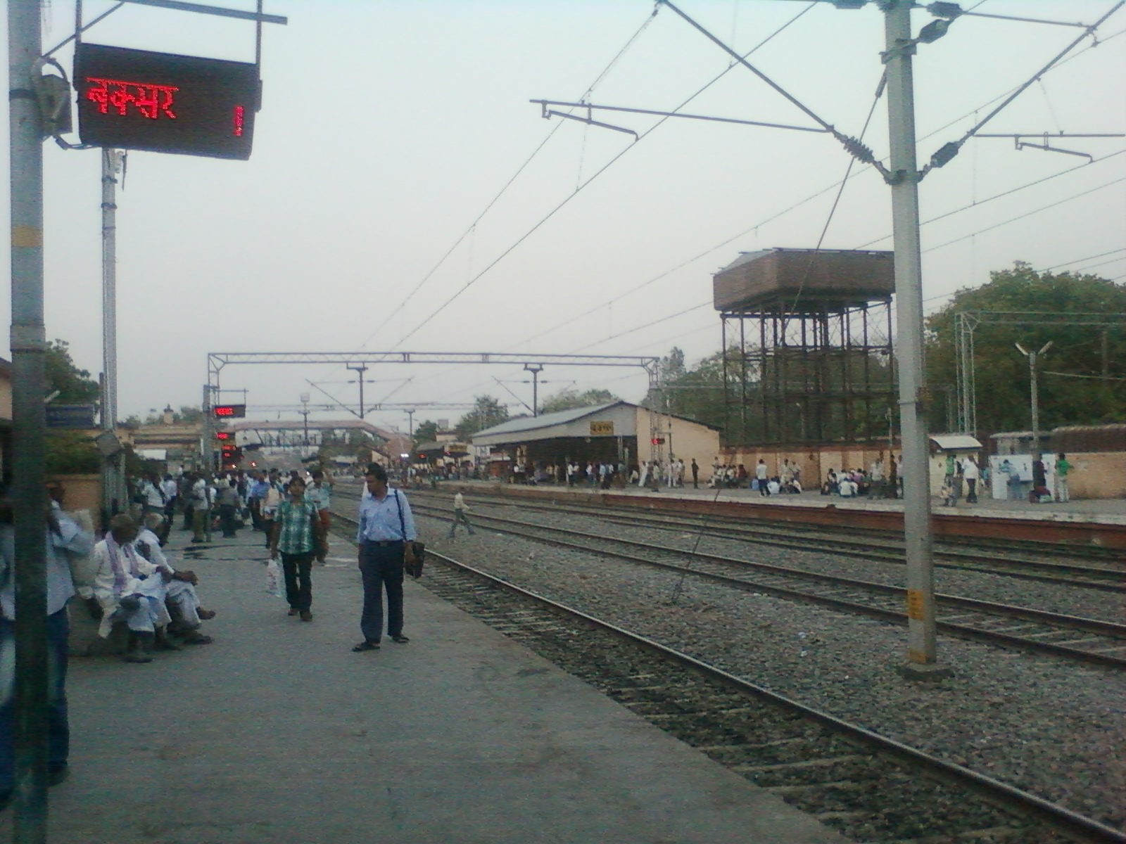 Buxar Railway Station - showing tracks